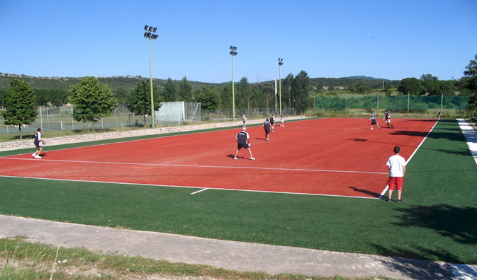 Tamburello at Notre-Dame-de-Londres (Hérault, France). Match of the Division 1 French championship : Notre-Dame-de-Londres Vs. Cournonterral, saturday june 28th 2008.